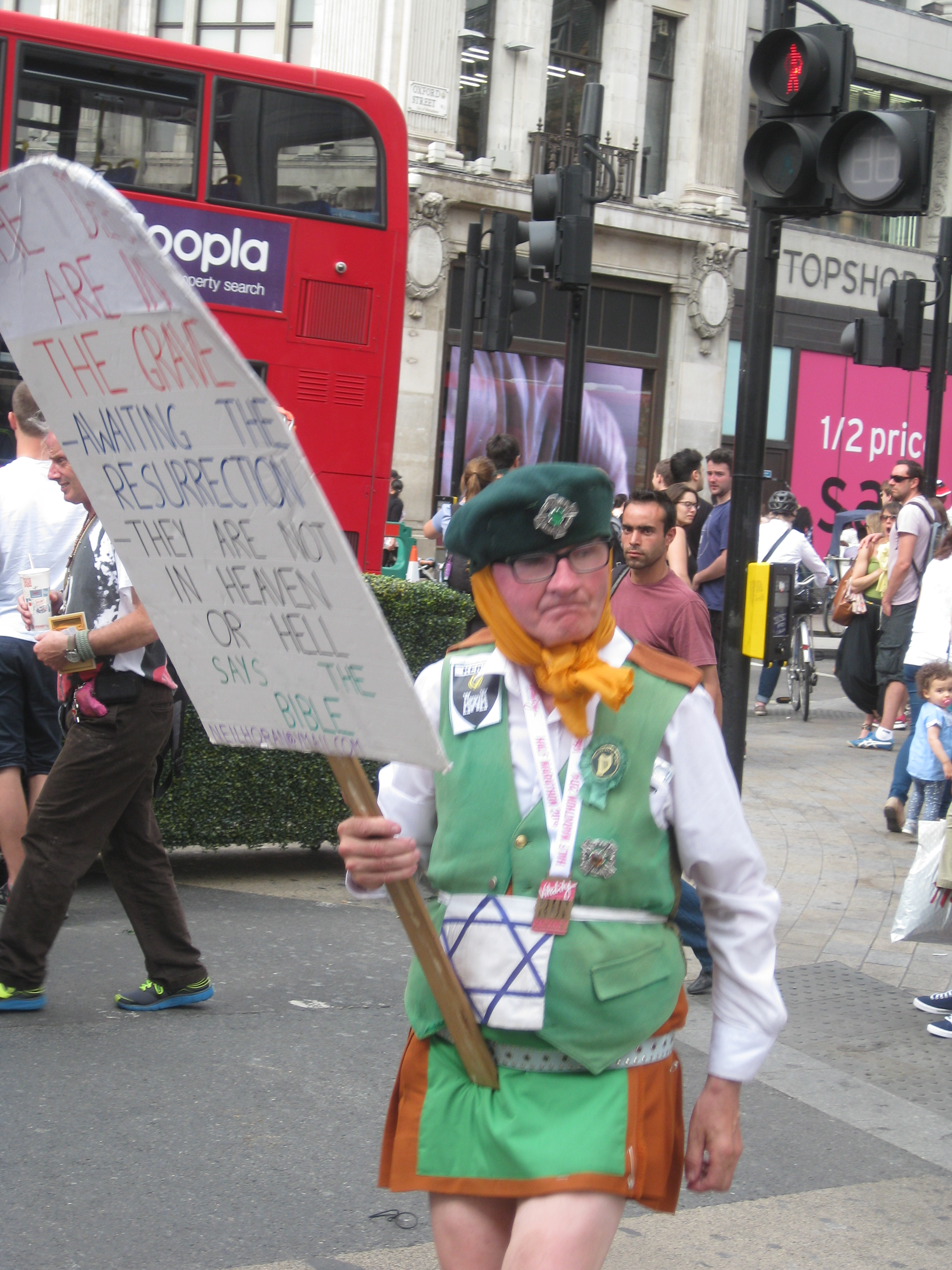 Neil Horan doing in Irish jig in Oxford Circus, London in 2014